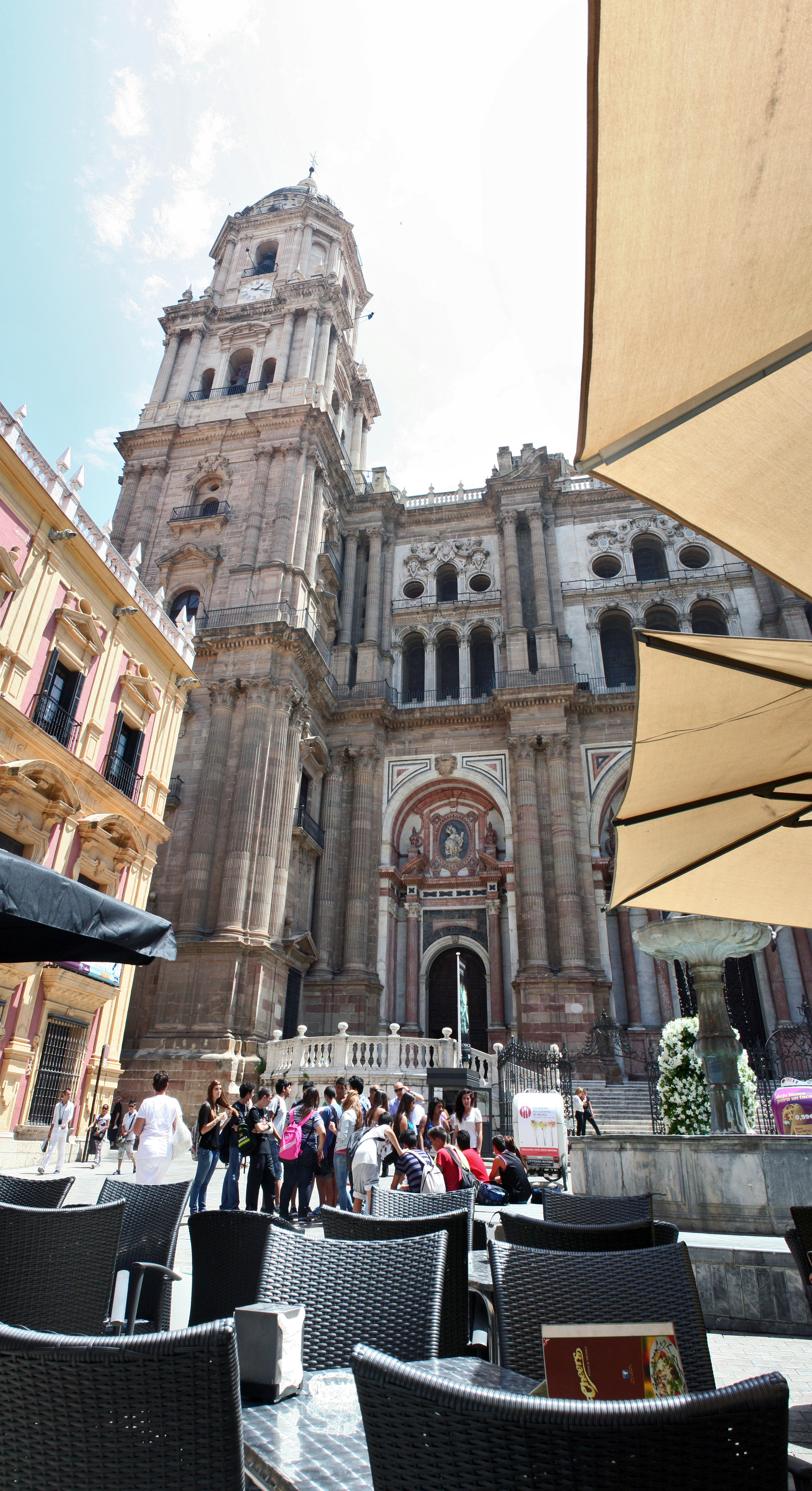 Cathedral of Malaga